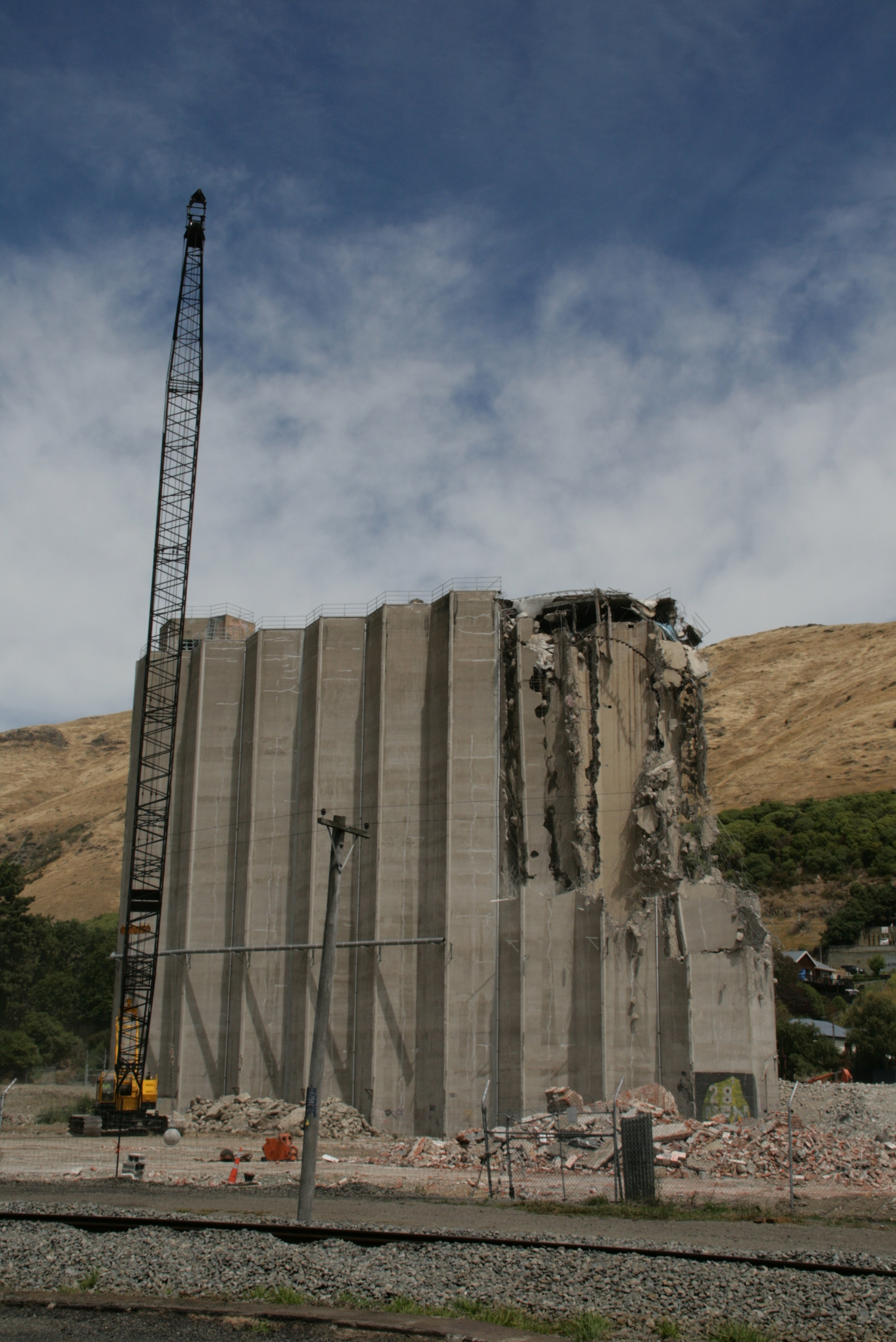 Christchurch landmark, Heathcote grain silos finally falling to the wreckers ball